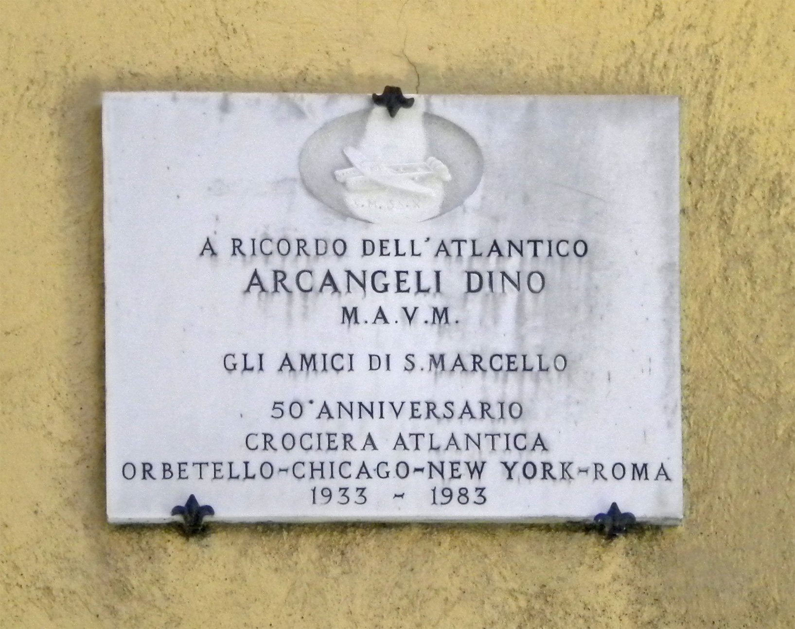 Marble memorial plaque dedicated to Dino Arcangeli on the occasion of the 50th anniversary of the transatlantic flight Orbetello-Chicago-New York-Rome